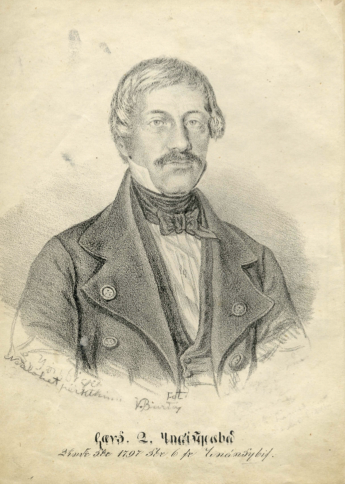 Naum Veqilharxhi — activist of the Albanian National Awakening.